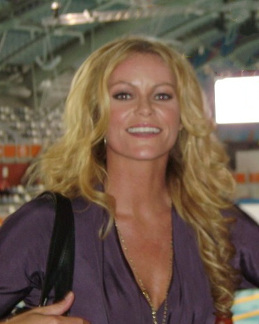 Former dutch swimmer Inge de Bruijn at the European LC Championships 2008 in Eindhoven